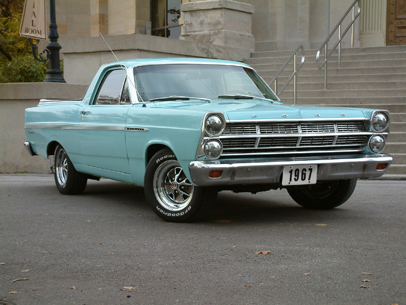 Digital photo of 1967 Ford Fairlane Ranchero taken by owner Bill Wrigley in Toronto, Canada on November 14, 2002.